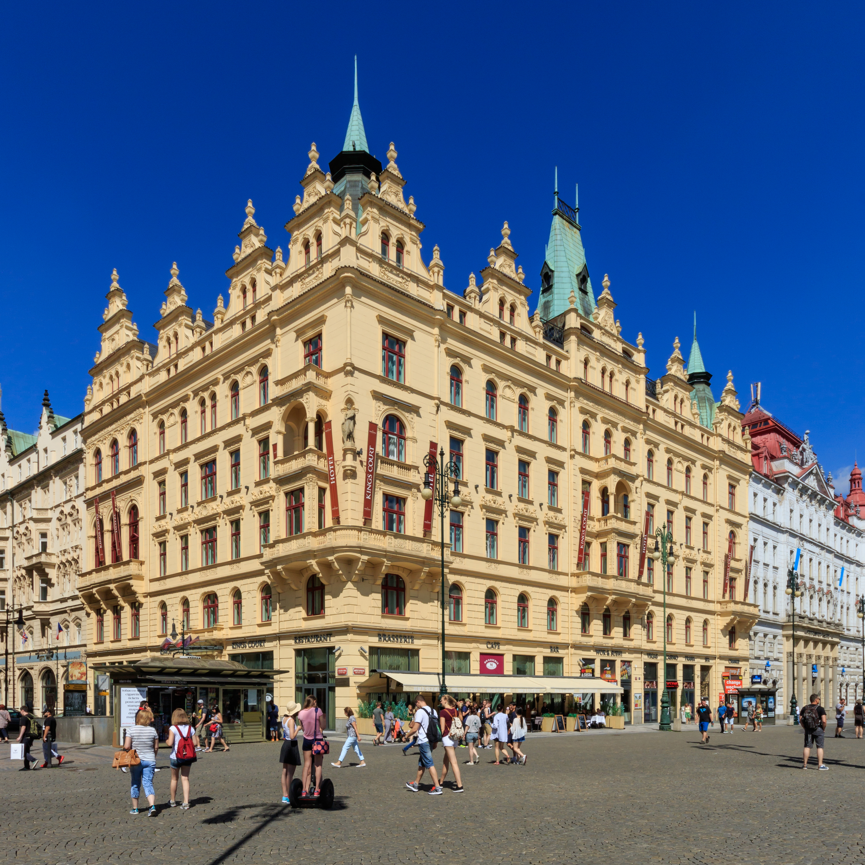 Hotel Kings Court in Prague (Czech Republic)